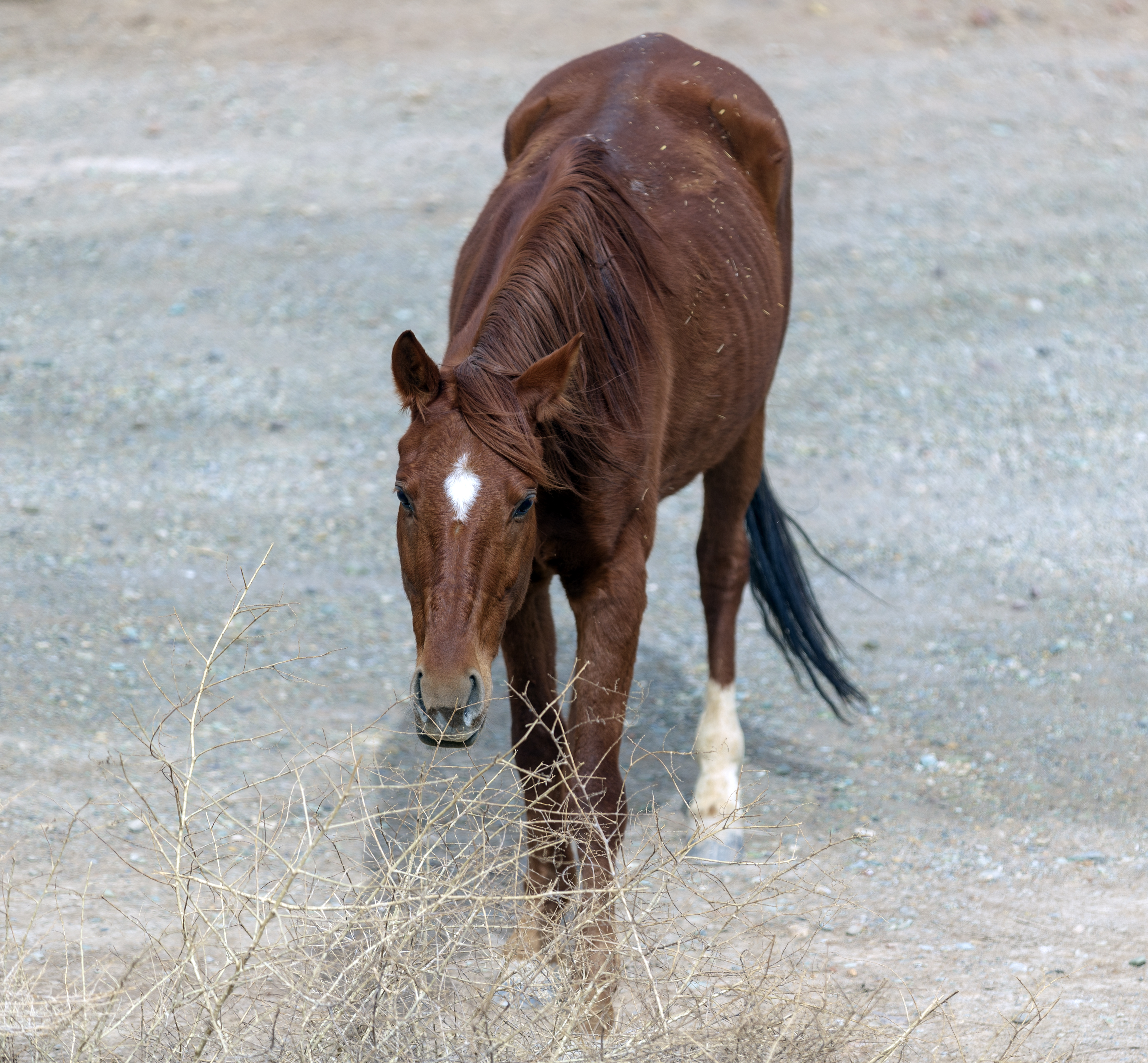 The horse is one of two extant subspecies of Equus ferus. It is an odd-toed ungulate mammal belonging to the taxonomic family Equidae.